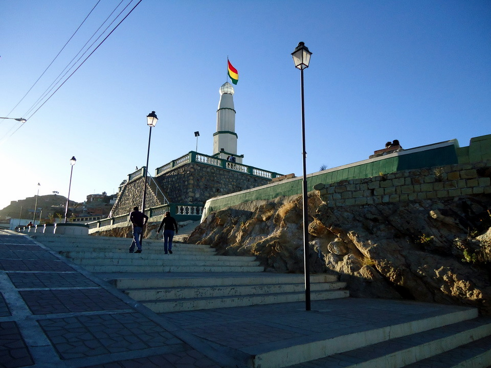 Conchupata lighthouse in the city of Oruro, with the bolivian flag on top.